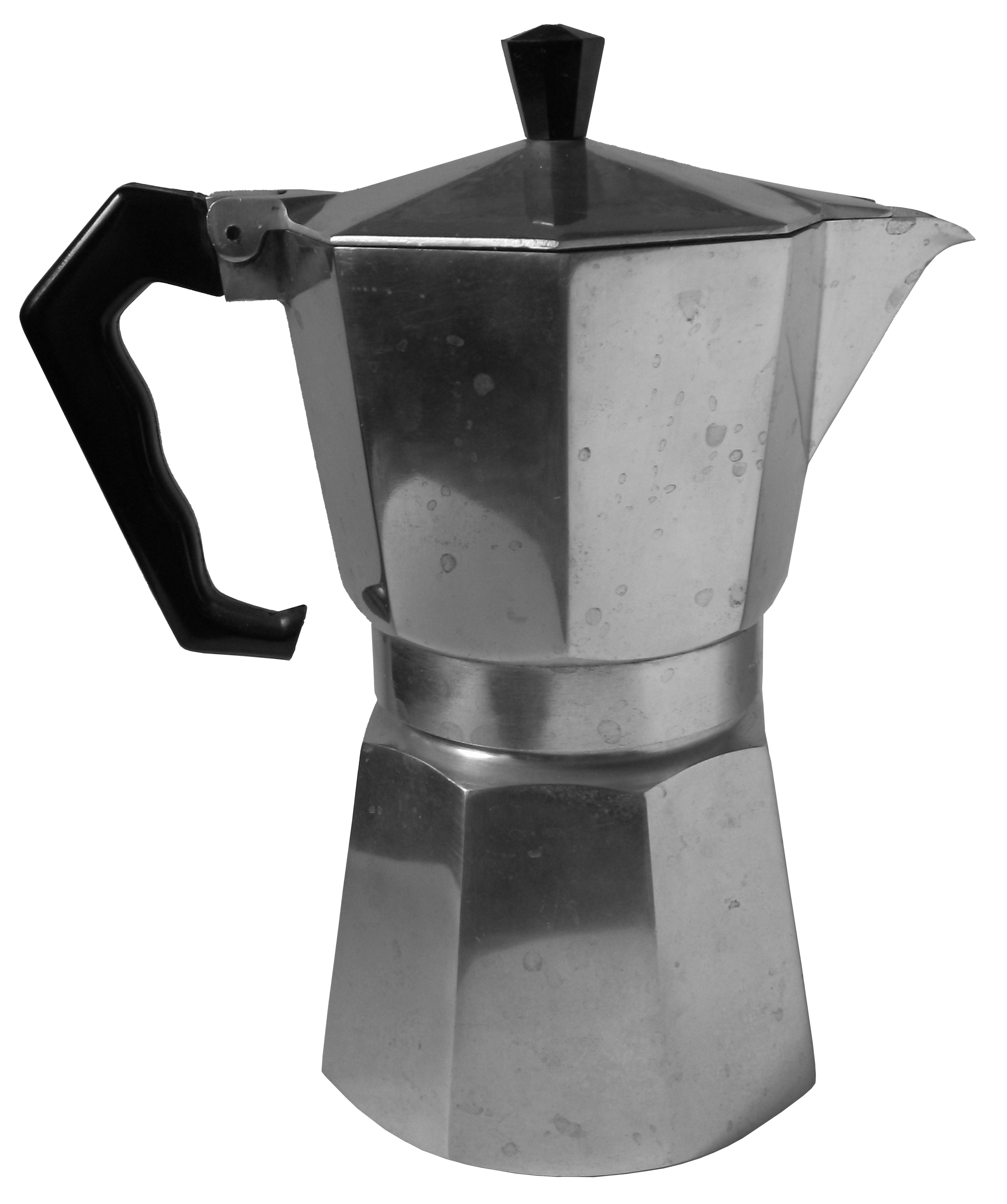 Bialetti Moka Express Espresso Maker-pot made of aluminum alloy, cast in three parts, plus plastic handle and spout.